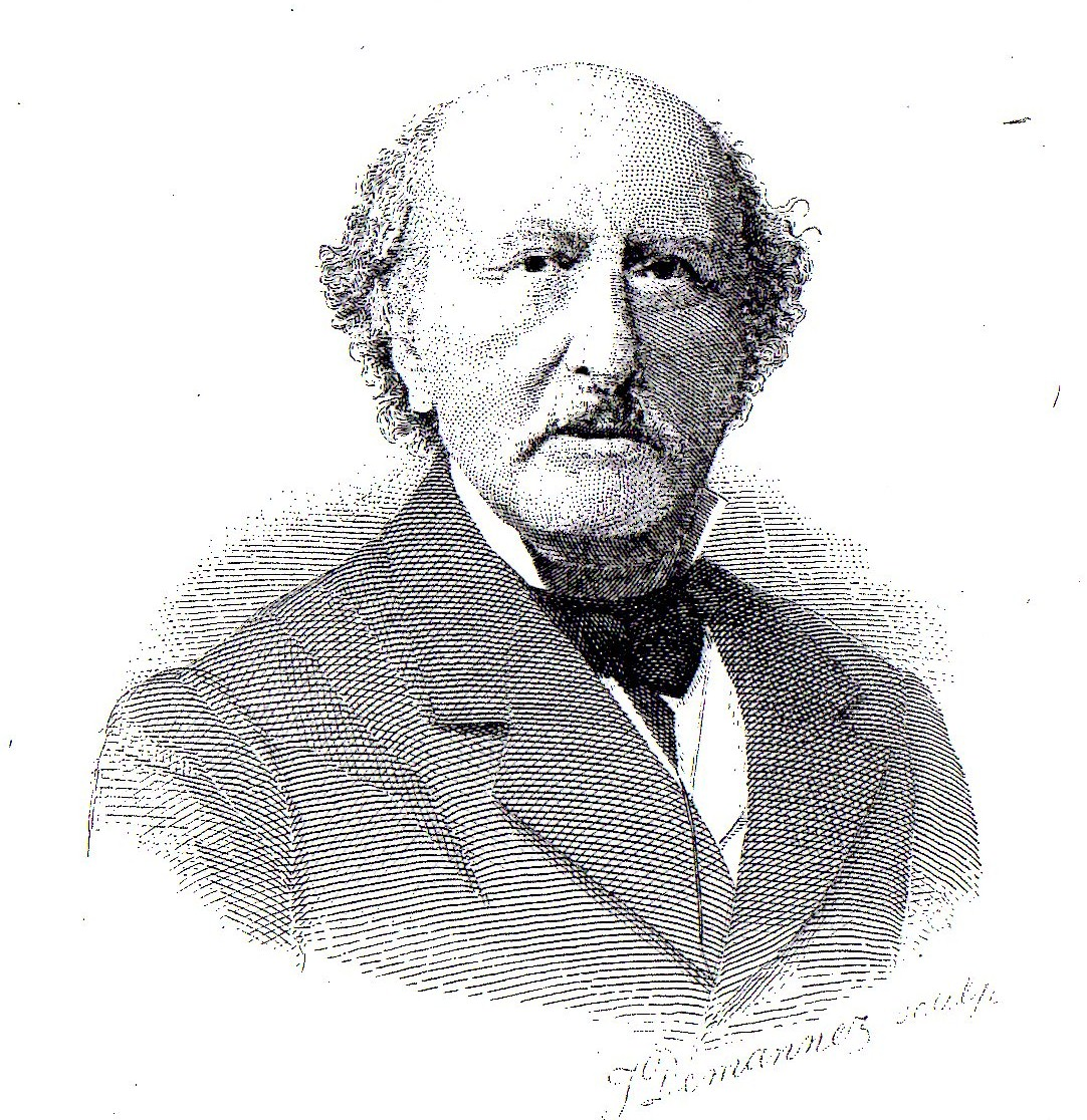 Portrait of Karel-Frans Stallaert (1820-1893)